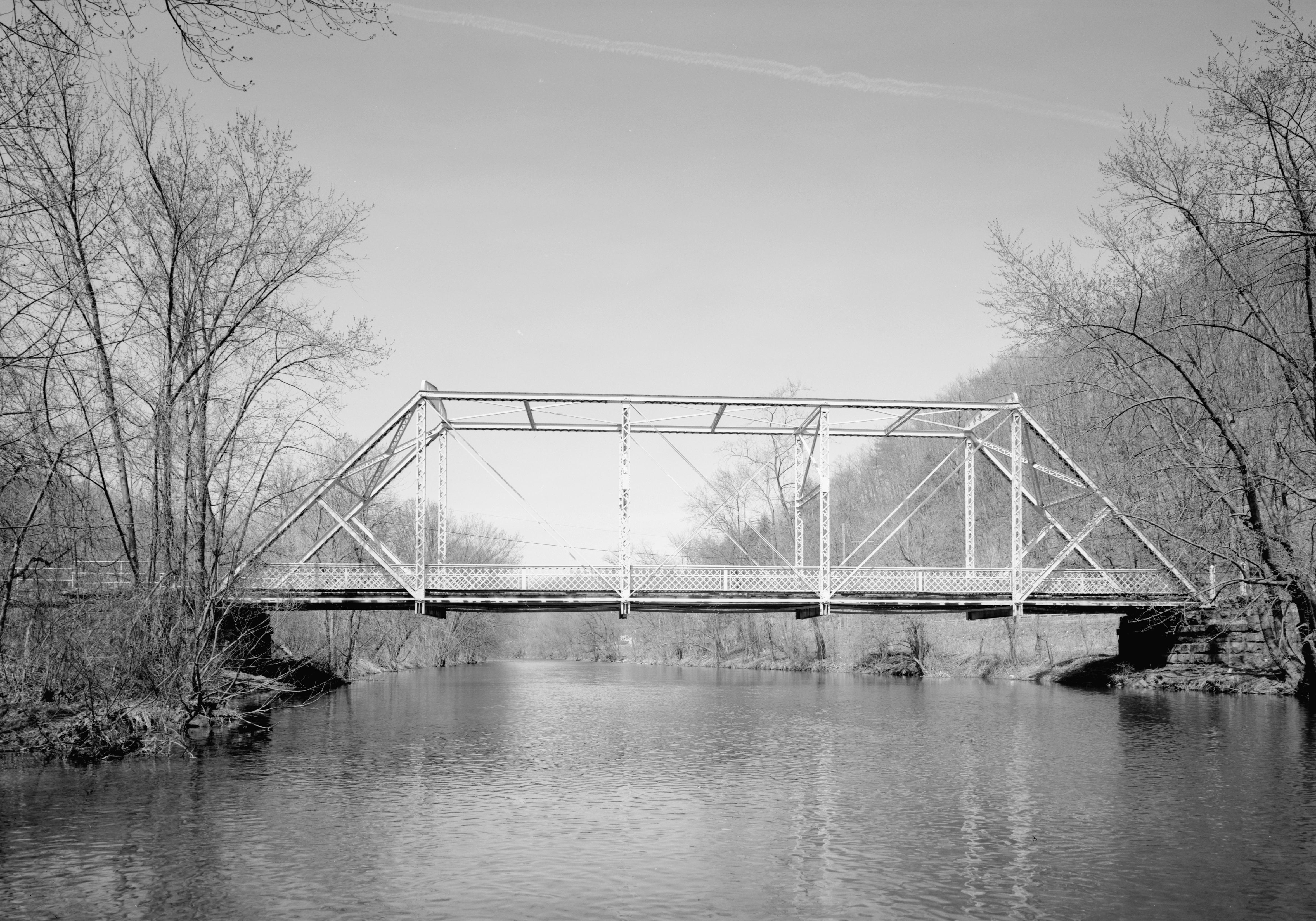 Southern (downstream) side of the Birmingham Bridge, which spans the Juniata River off Pennsylvania Route 350 north of Birmingham in Tyrone Township in Blair County and Warriors Mark Township in Huntingdon County in the U.S. state of Pennsylvania. Built in 1898, this Pratt through truss bridge is listed on the National Register of Historic Places.